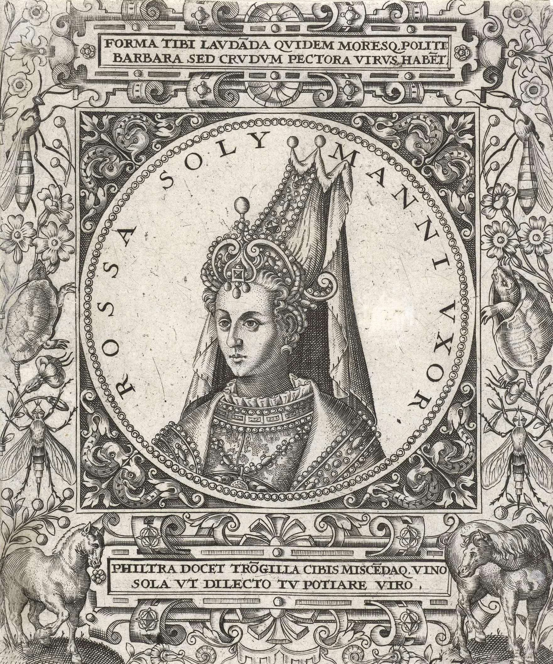 Portrait of the Sultan Roxelana